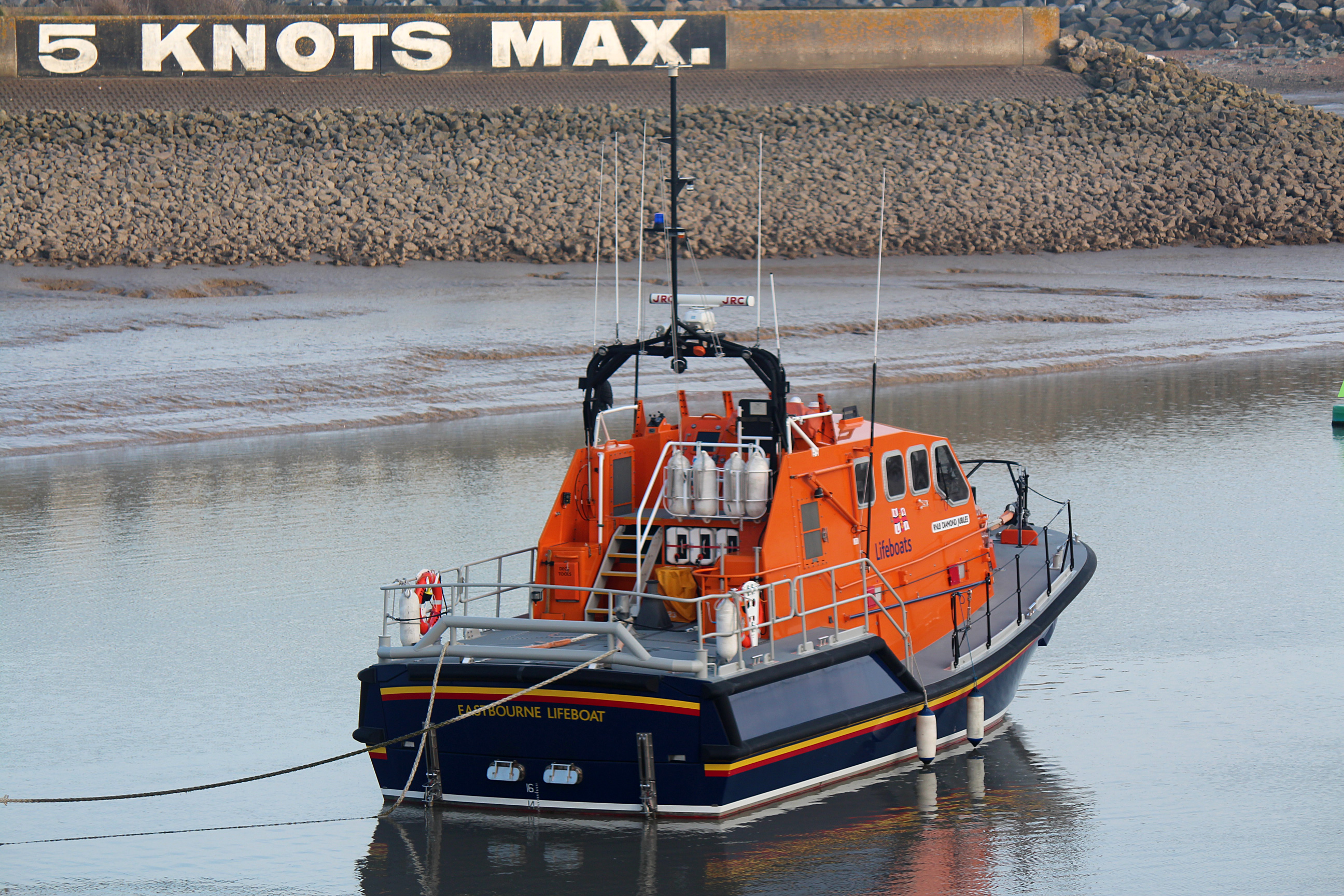 Eastbourne Lifeboat 16-23 RNLB The Diamond Jubilee in Sovereign Harbour, Eastbourne